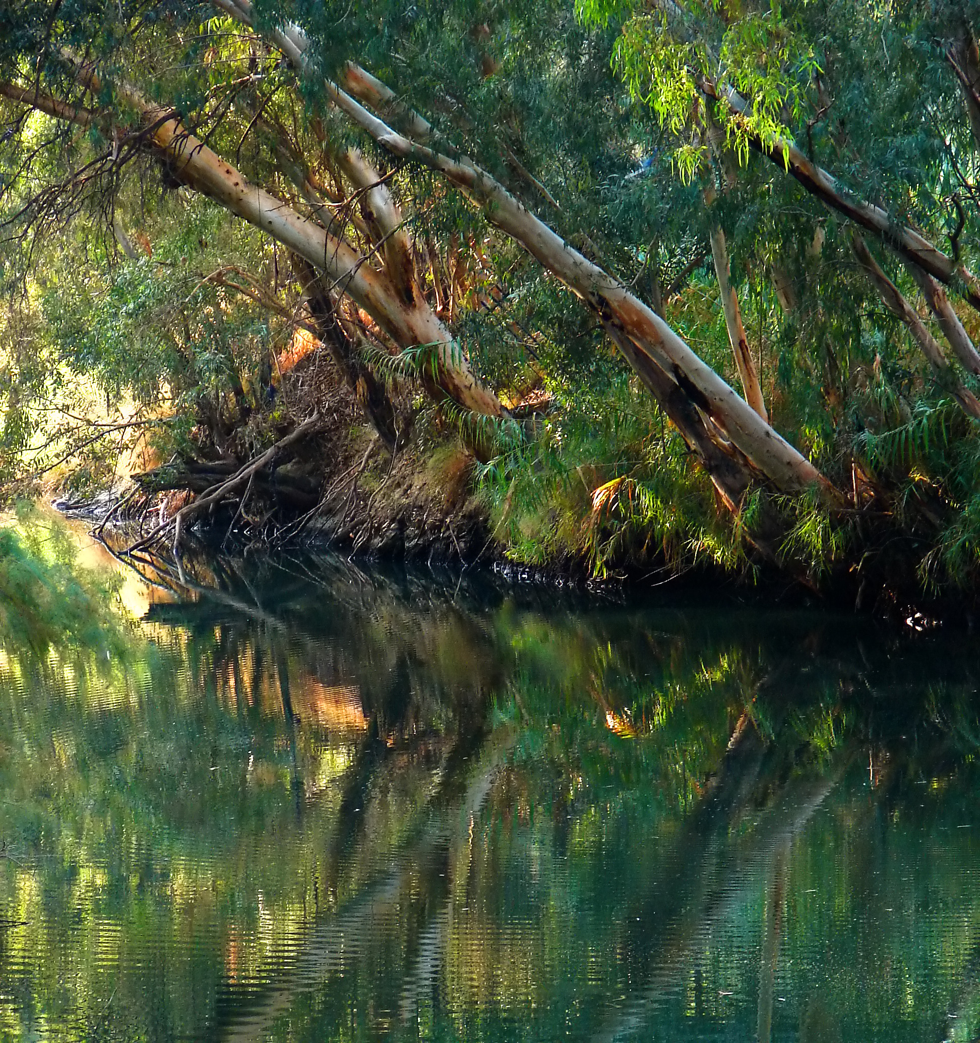 The Jordan River as seen from the baptism complex